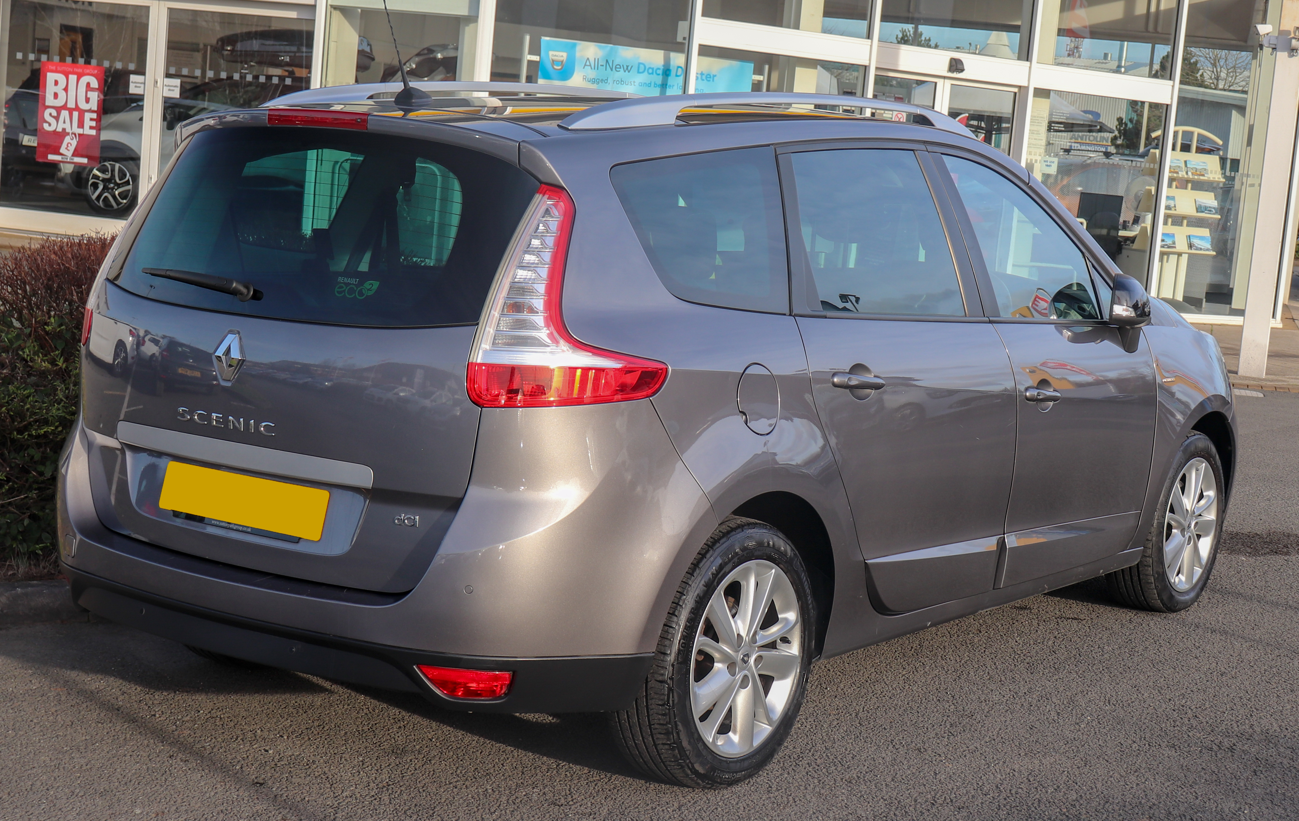 2014 Renault Grand Scenic LTD Energy DCi 1.5 Rear Taken in Leamington Spa